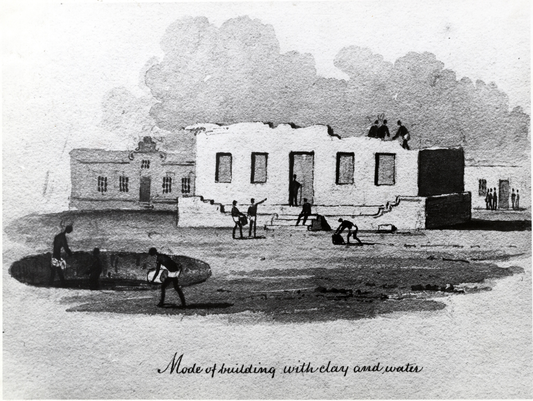 Cape Town slaves busy building